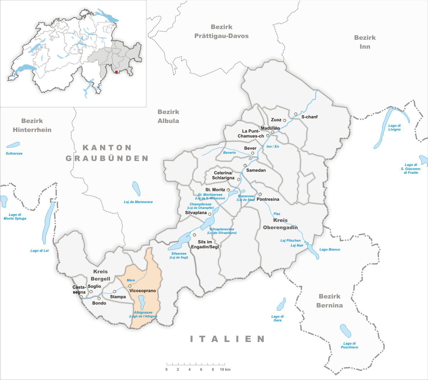 Municipality Vicosoprano